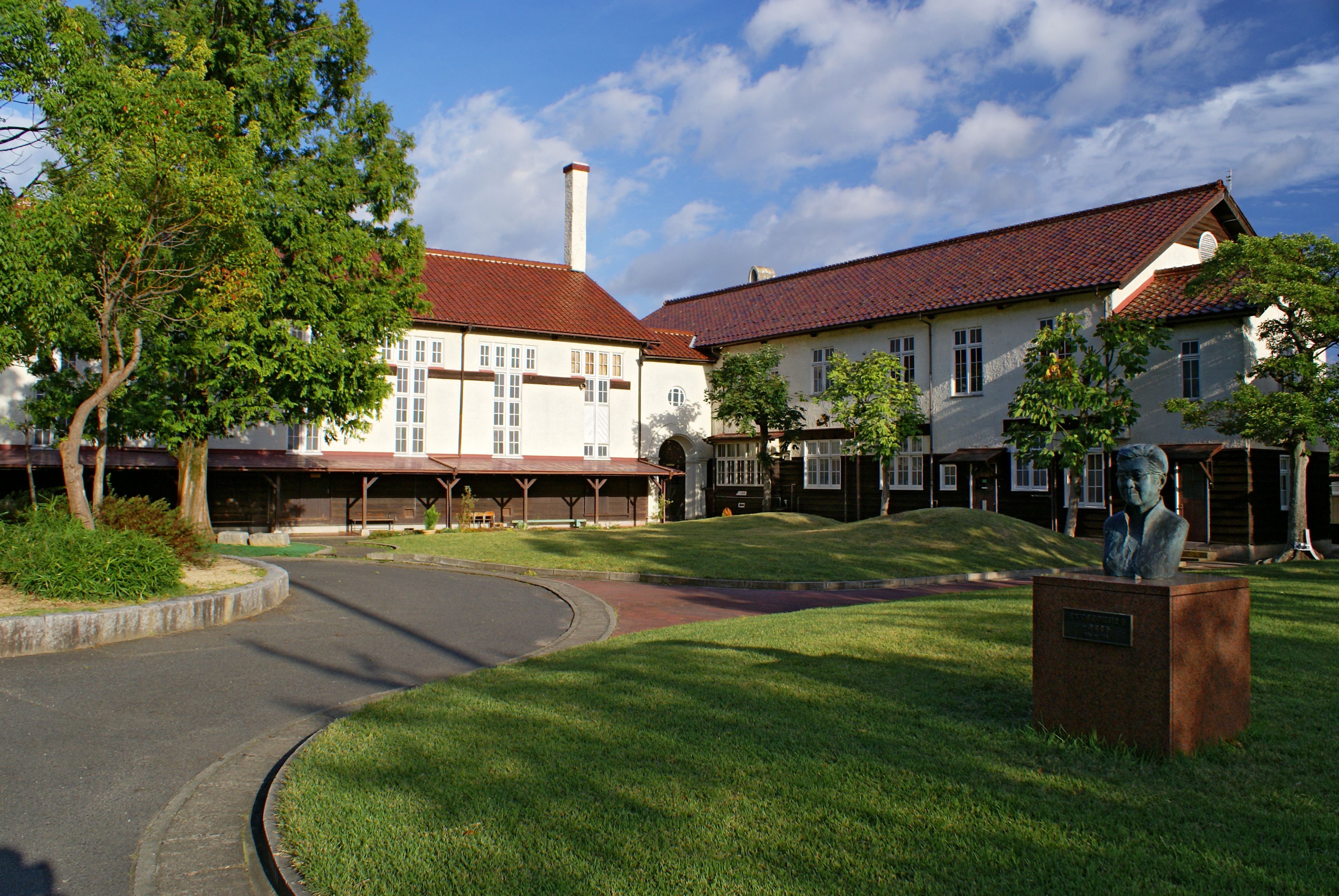 Hyde Memorial Hall and Educational Hall, Omihachiman, Shiga prefecture, Japan